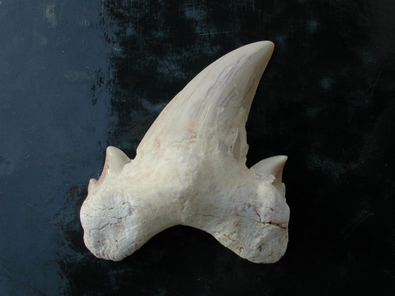 Otodus obliquus tooth